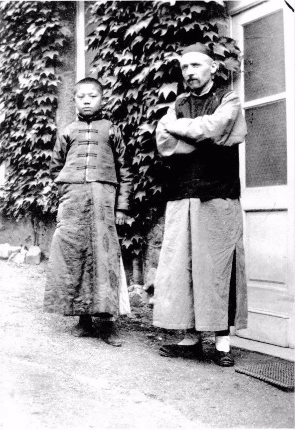 Ying Qian and Frédéric-Vincent Lebbe in Europe in the teenage years. 中文（中国大陆）: 英千里和雷鸣远神父在欧洲。